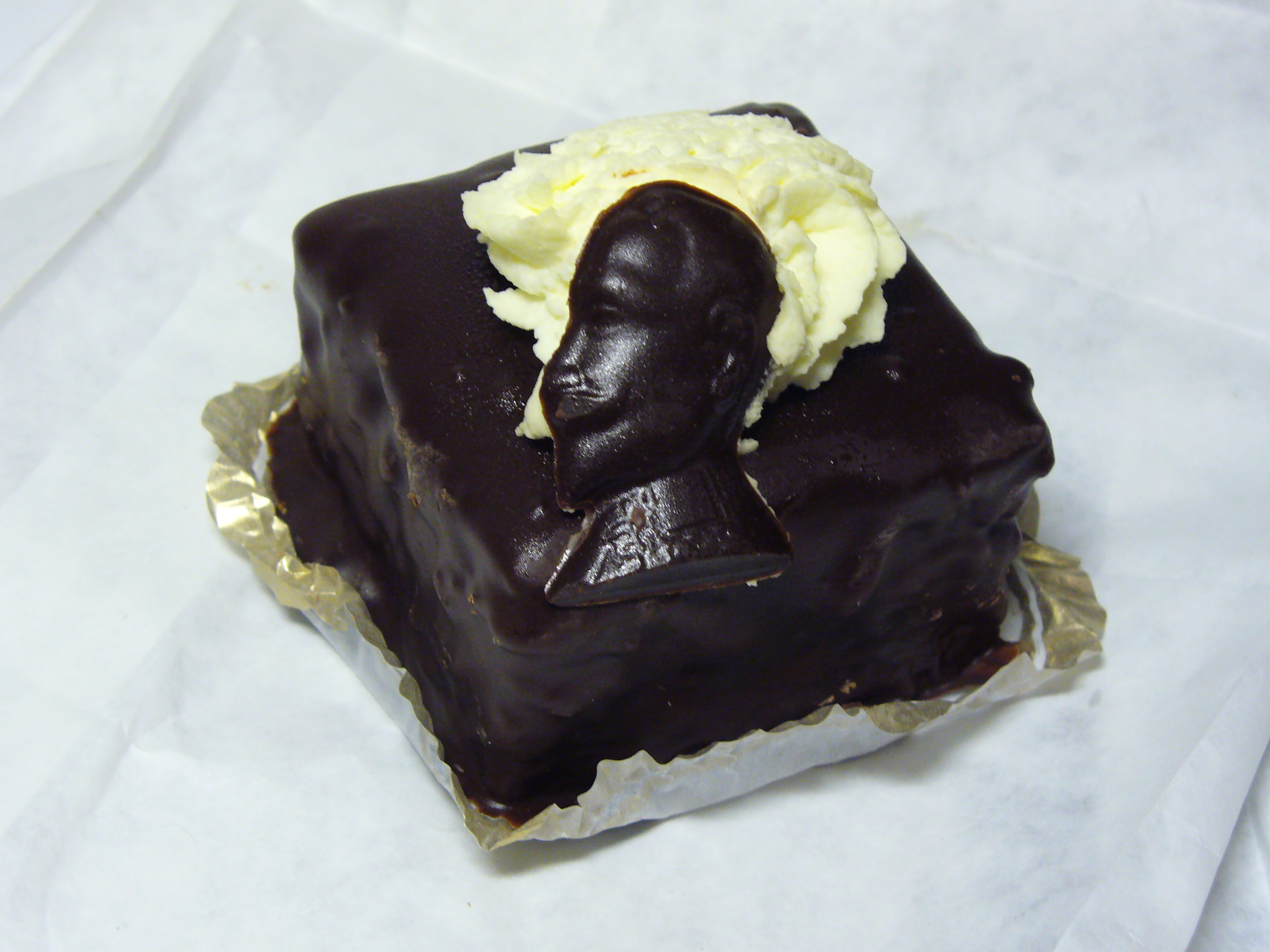 A Gustaf Adolf pastry